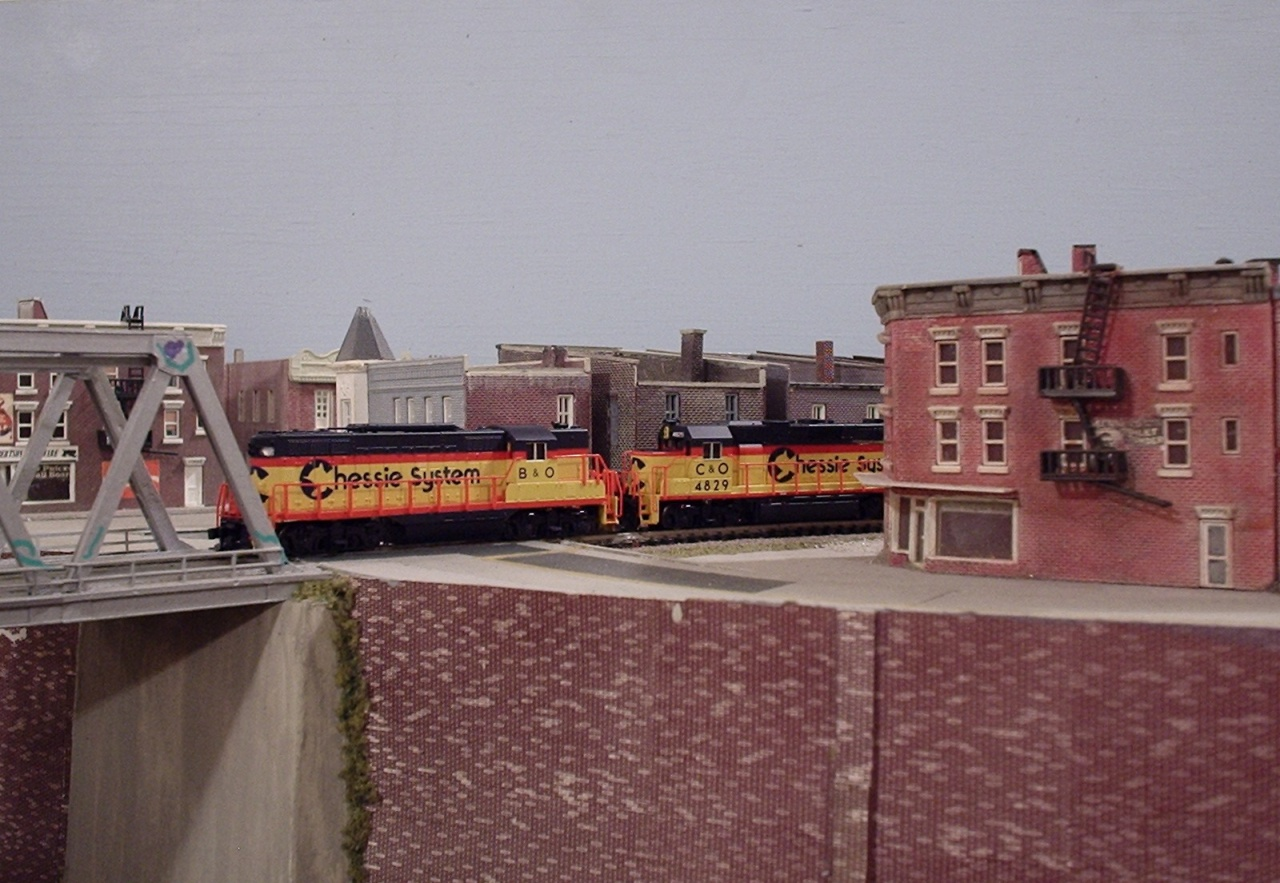 An EMD GP9 made by Atlas Model Railroad on the South Hampton Roads Ntrak. Photo By William Grimes